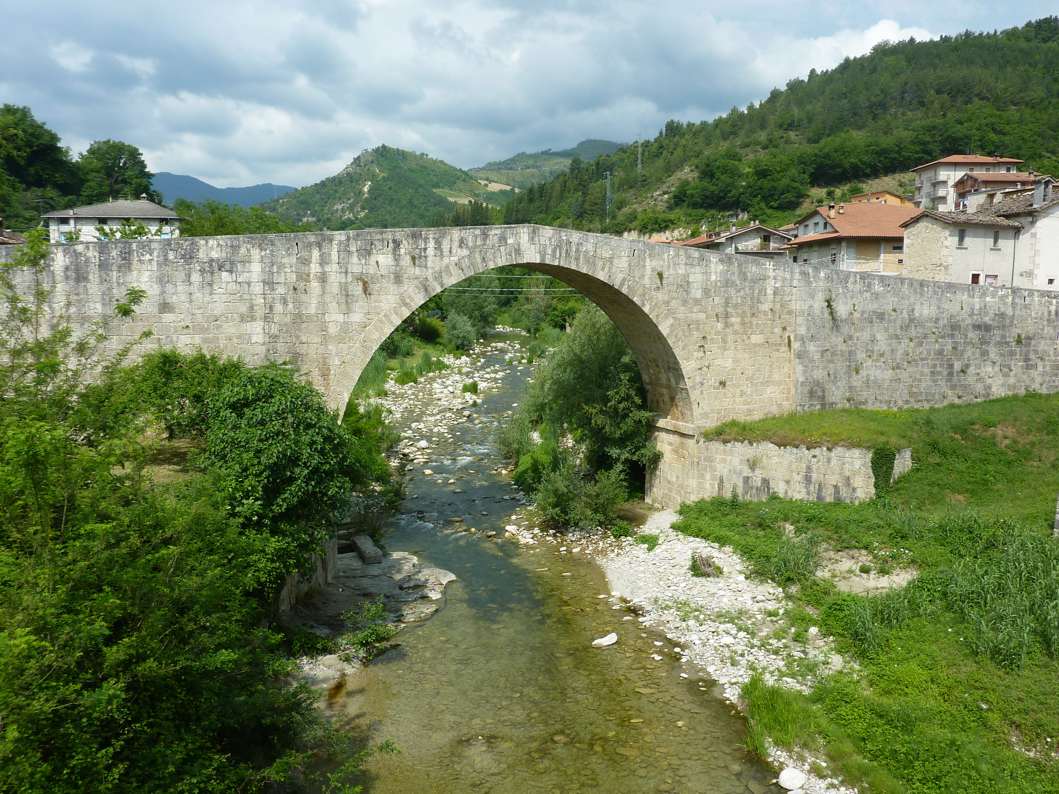 Ponte d'Arli: Roman bridge